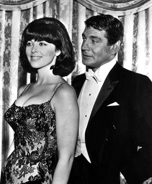 Publicity photo of Tina Louise and Gene Barry from the television program Burke's Law.